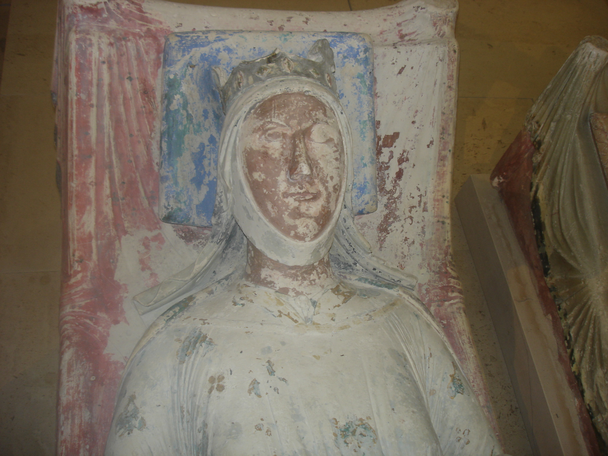 Eleanor of Aquitaine, tomb in the church of Fontevraud Abbey (France)